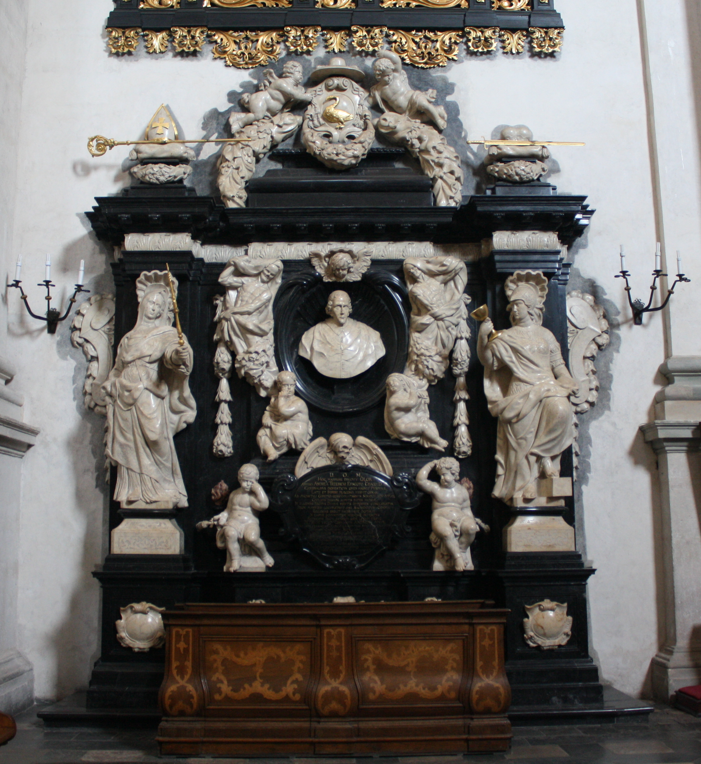 Cracow, Church of SS. Peter and Paul, Monument of Bishop Andrzej Trzebnicki